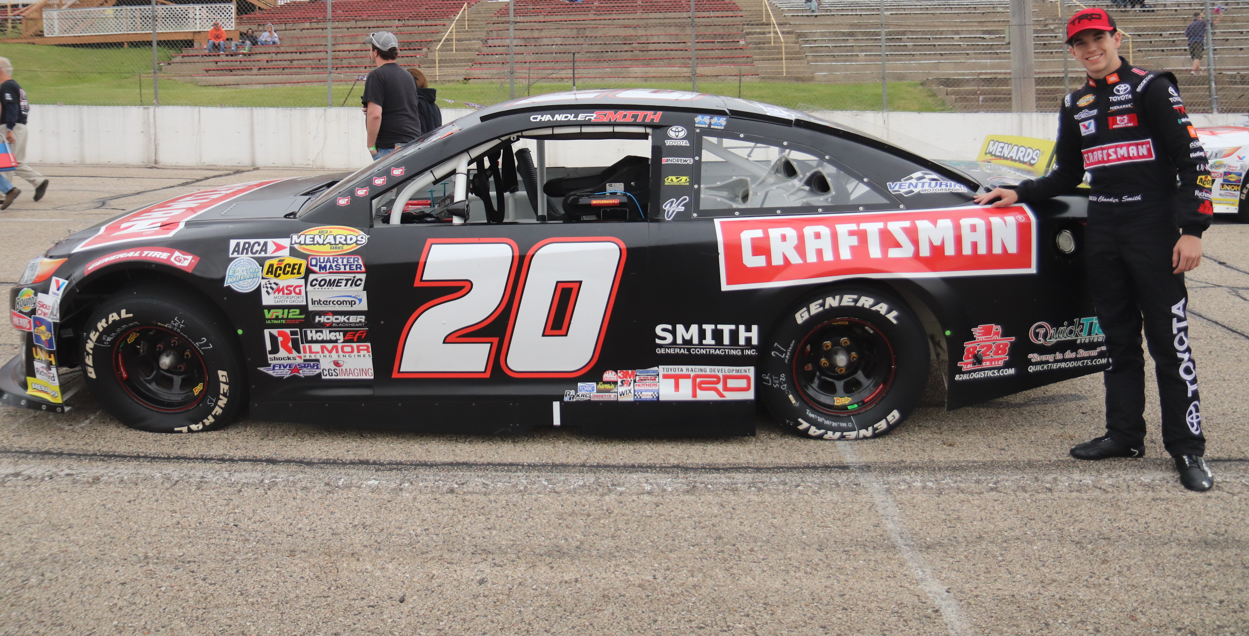 Chandler Smith stands beside his #20 Toyota Camry ARCA car at Madison.